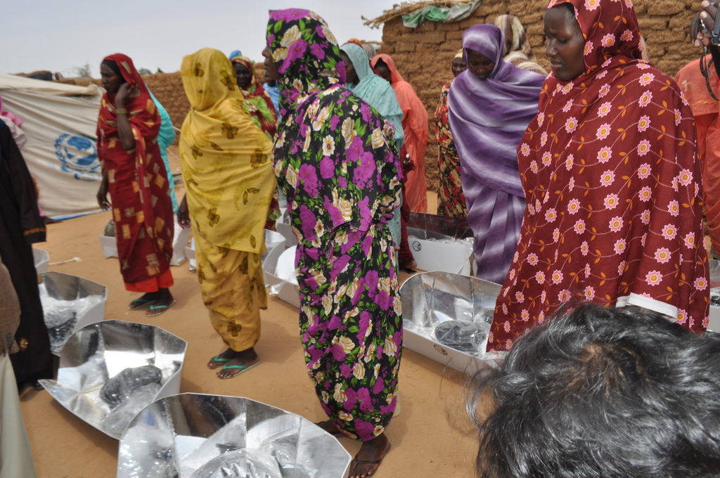 Women in the Abu Shouk IDP Camp learning how to use new solar cookers.